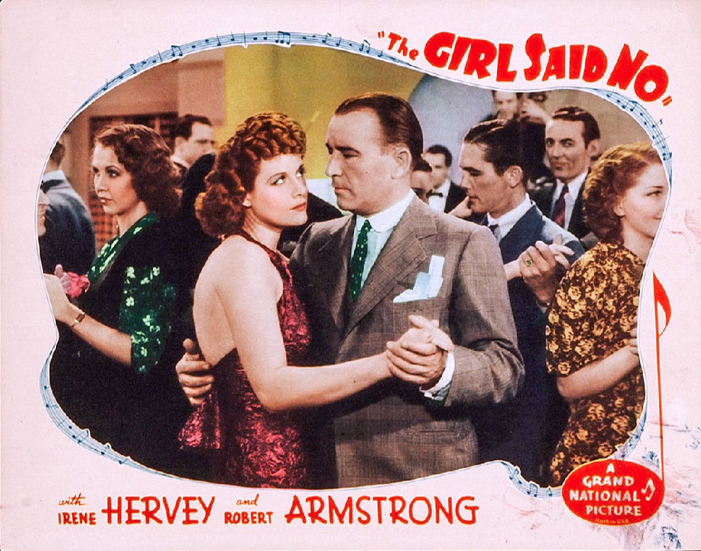 Lobby card for the 1937 film The Girl Said No.